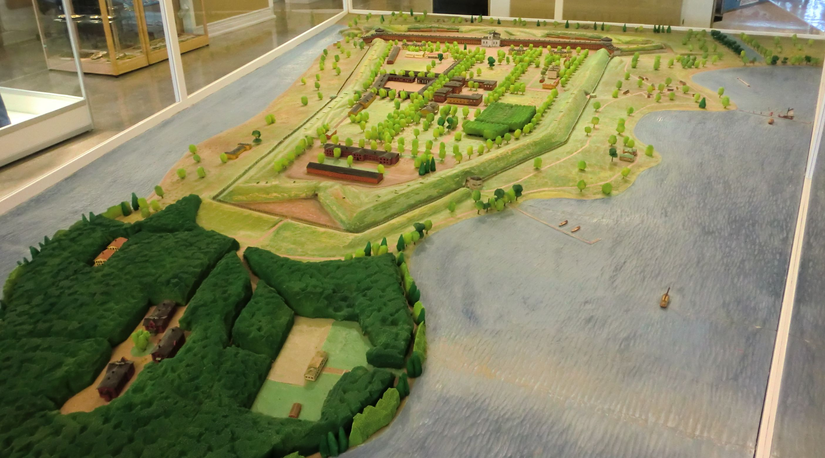 Vanäs peninsula and Karlsborg Fortress seen from north, on a model in Karlsborg Fortressmuseum. The 678 metre long reduit is in the background of the model.